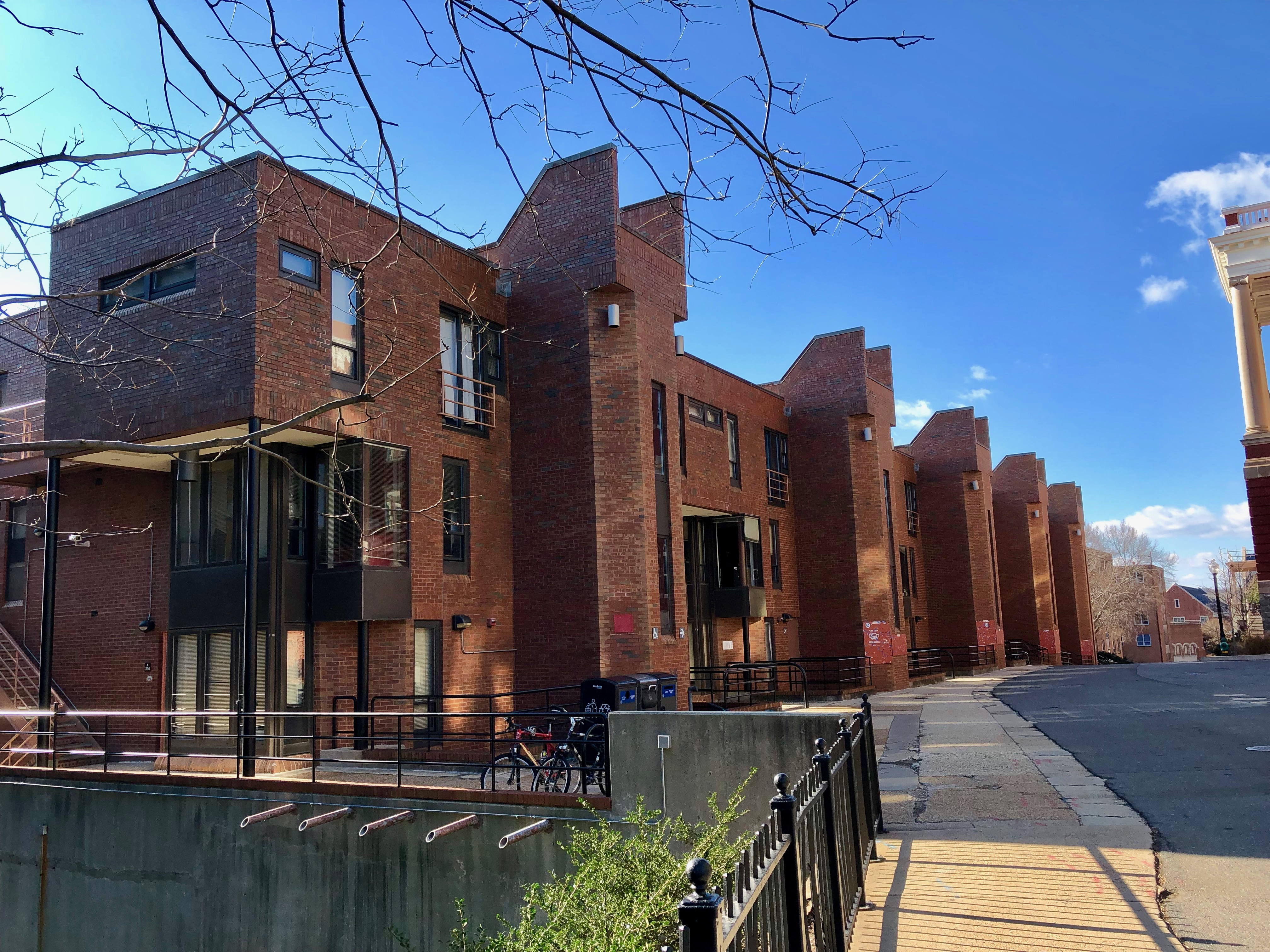 Village A, Georgetown University, Georgetown, Washington, DC